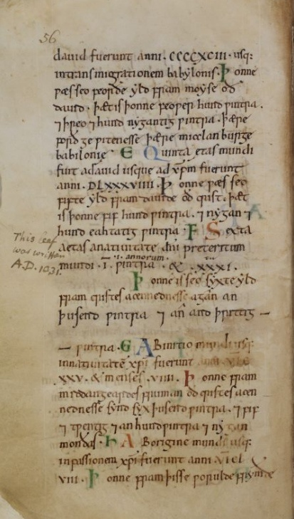 Will of Alfred the Great (New Minster Liber Vitae) - BL Stowe MS 944